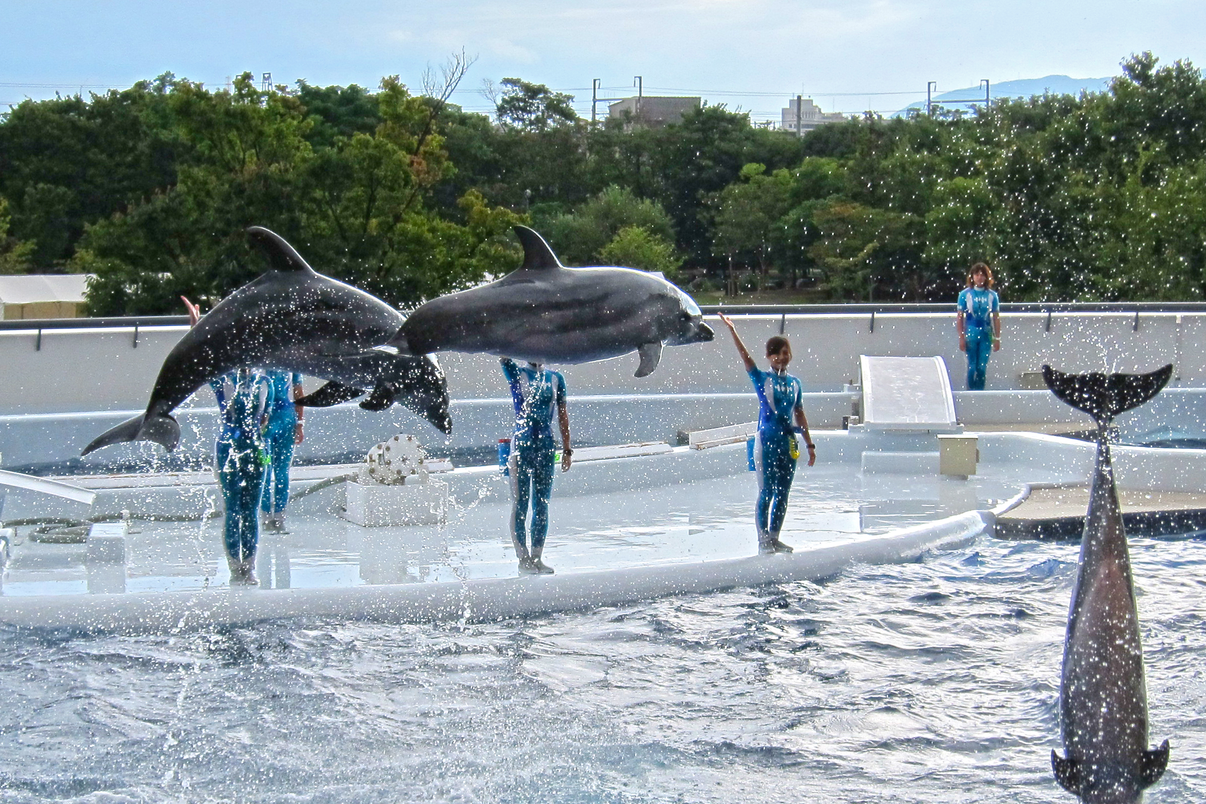 Kyoto Aquarium (京都水族館), Kyoto, Kyoto prefecture, Japan